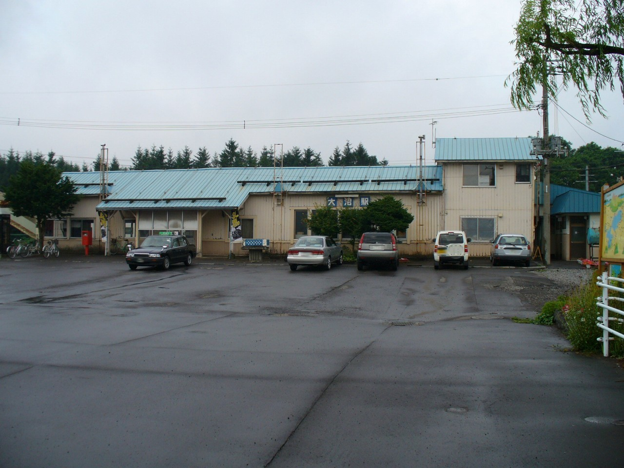 Onuma station, Hakodate line of Hokkaido railway company (JR Hokkaido), Nanae town Hokkaido Japan.